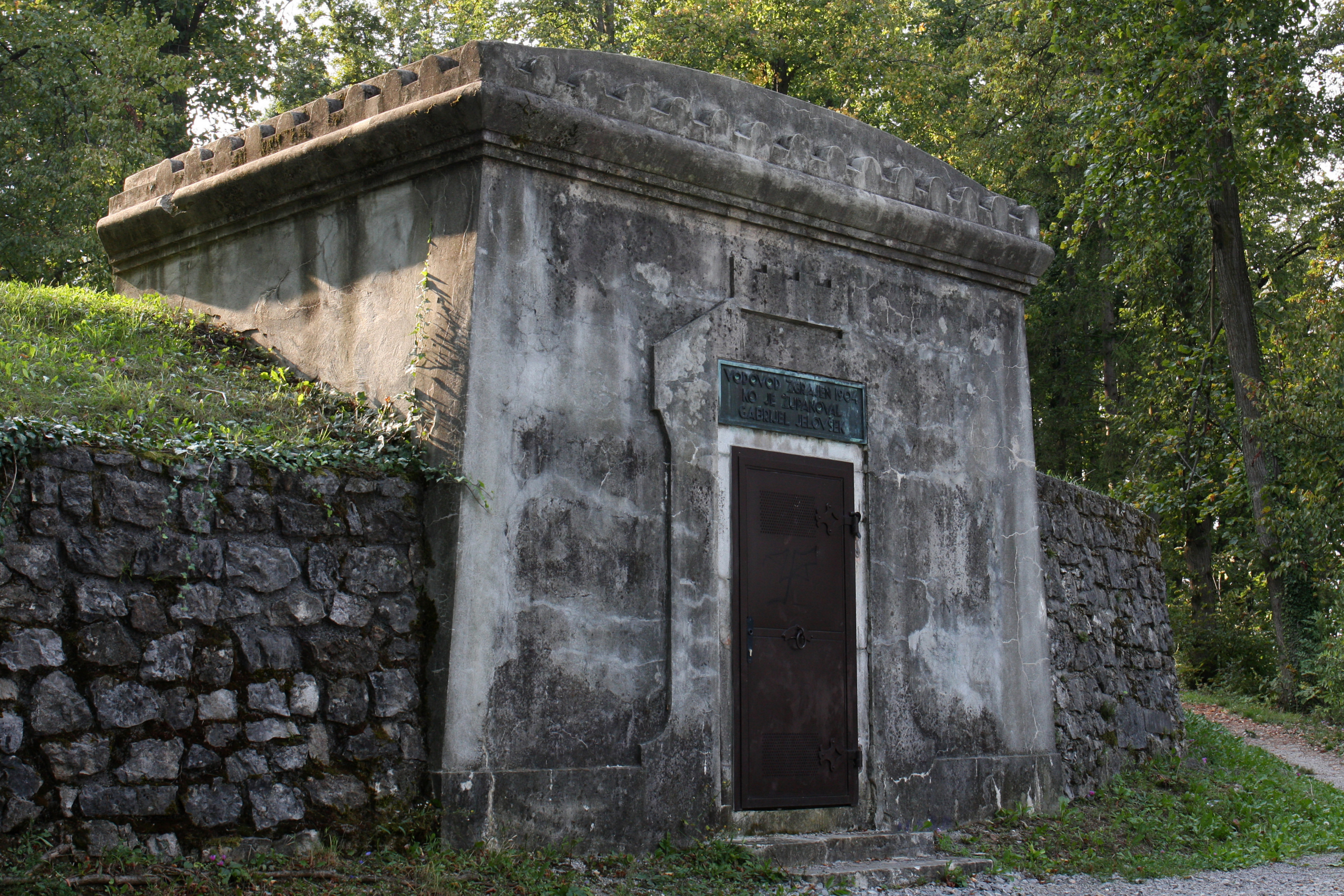 Waterworks station in Vrhnika, built in 1904.